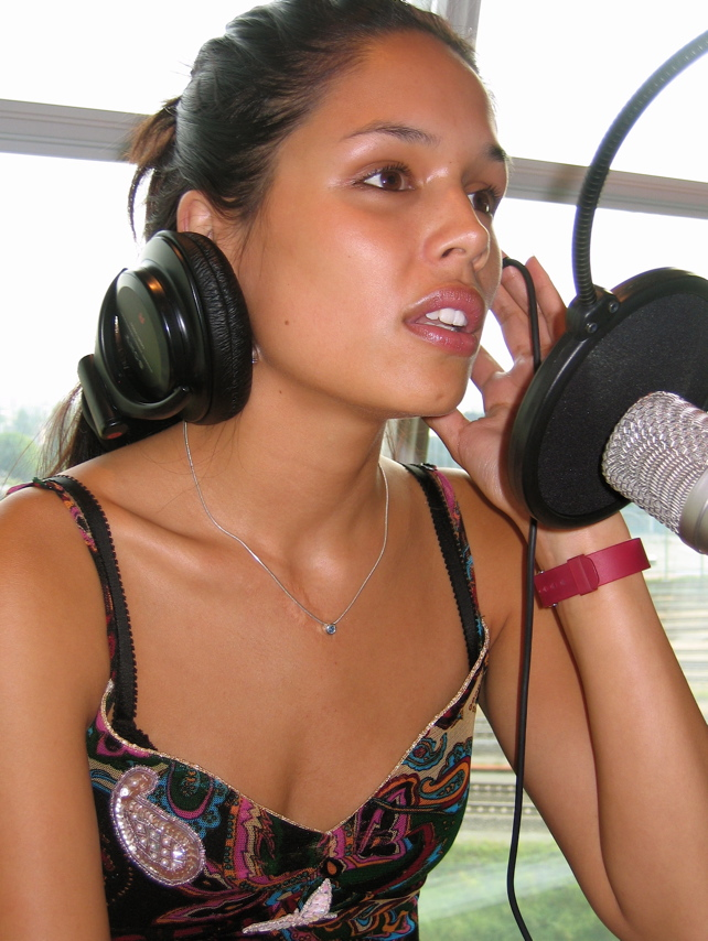 Miss Nederland 2006 @ iCazparty 10 on Caz! radio. Saturday 24 june 2006